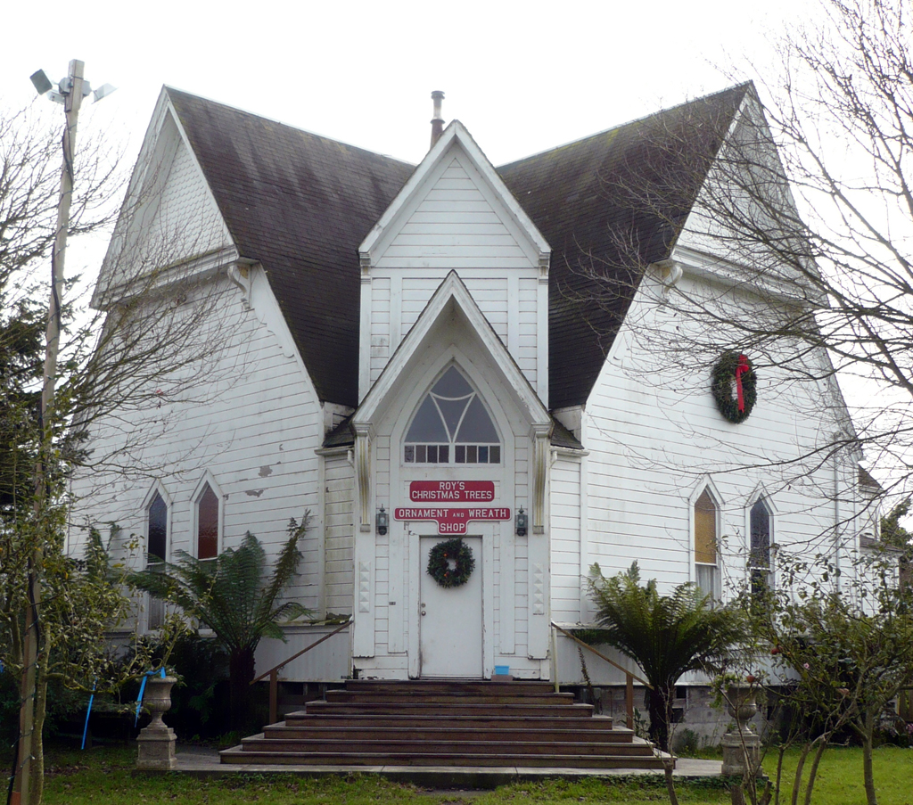 The old Presbyterian church at Grizzly Bluff, California which was also used as overflow classrooms for the Grizzly Bluff Schoolhouse. Both are about five miles east of Ferndale, California.